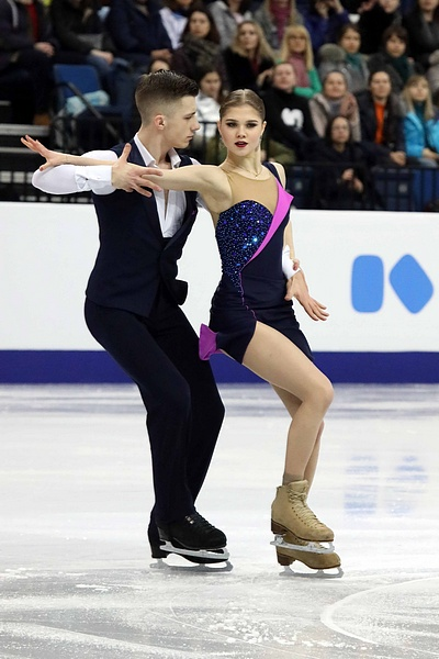 Anna Kublikova and Yuri Gulitski - 2019 European Championships